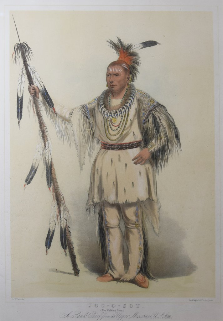 George Catlin (1796-1872) Joc-O-Sot, The Walking Bear, A Sauk Chief from the Upper Missouri, U.S.Am. From The North American Indian Portfolio London, 1844 Lithographs with original hand-coloring Sight size: approx. 19 x 14""